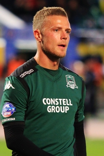 Ragnar Sigurðsson